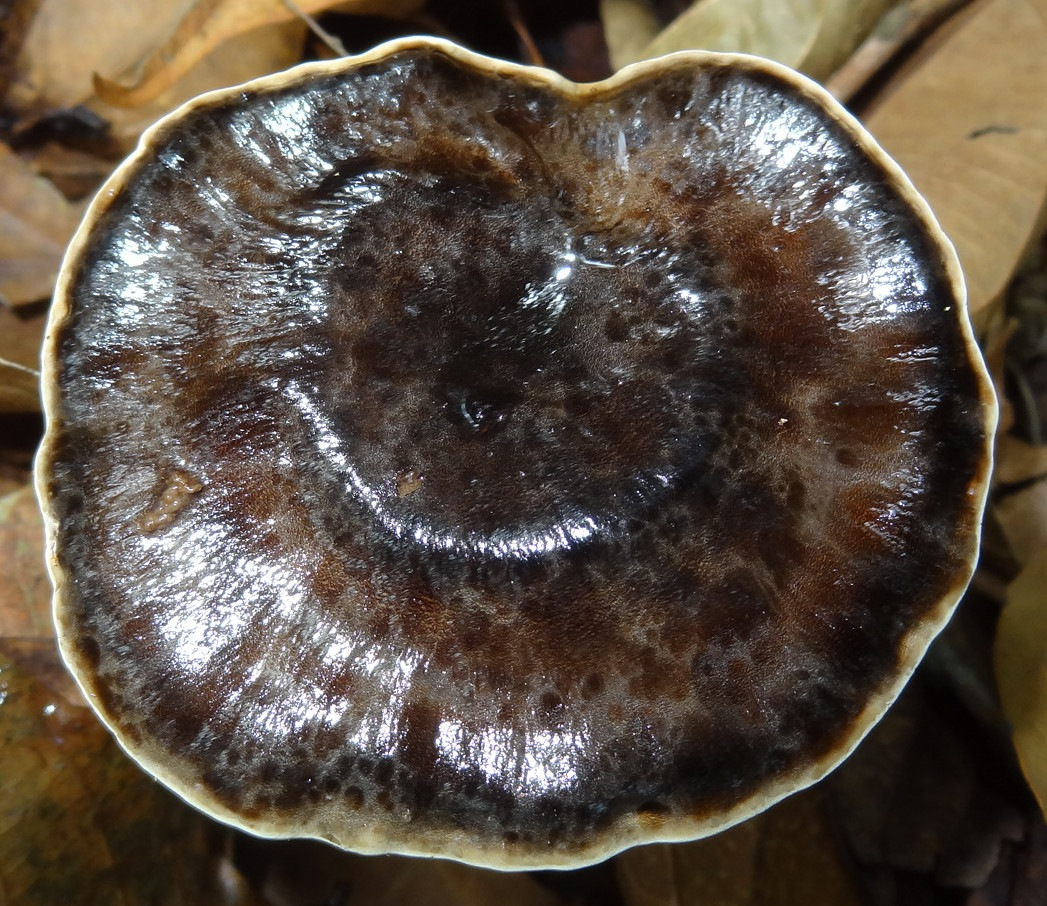 Amauroderma Murrill Image location: Cali, Valle del Cauca, Colombia Recognized by sight For more information about this, see the observation page at Mushroom Observer.